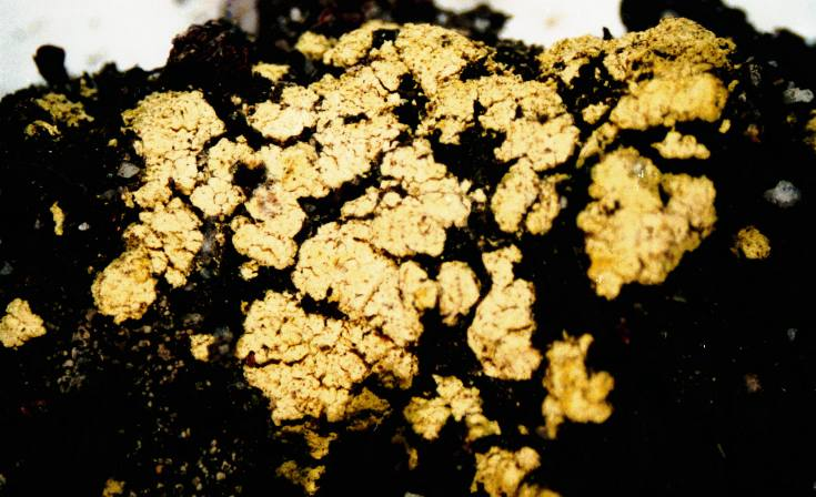 Arthrorhaphis alpina (Schaerer) R. Sant., 1980 (photograph of herbarium specimen taken through a dissecting microscope, x9) Growing on peat at the top of Whiteface Mountain, New York, USA; collected and identified by Jean Worthley and Elmer Worthley (No. L-561, 16 Sep 1983); specimen is now in the Lichen Herbarium of the New York Botanical Garden.